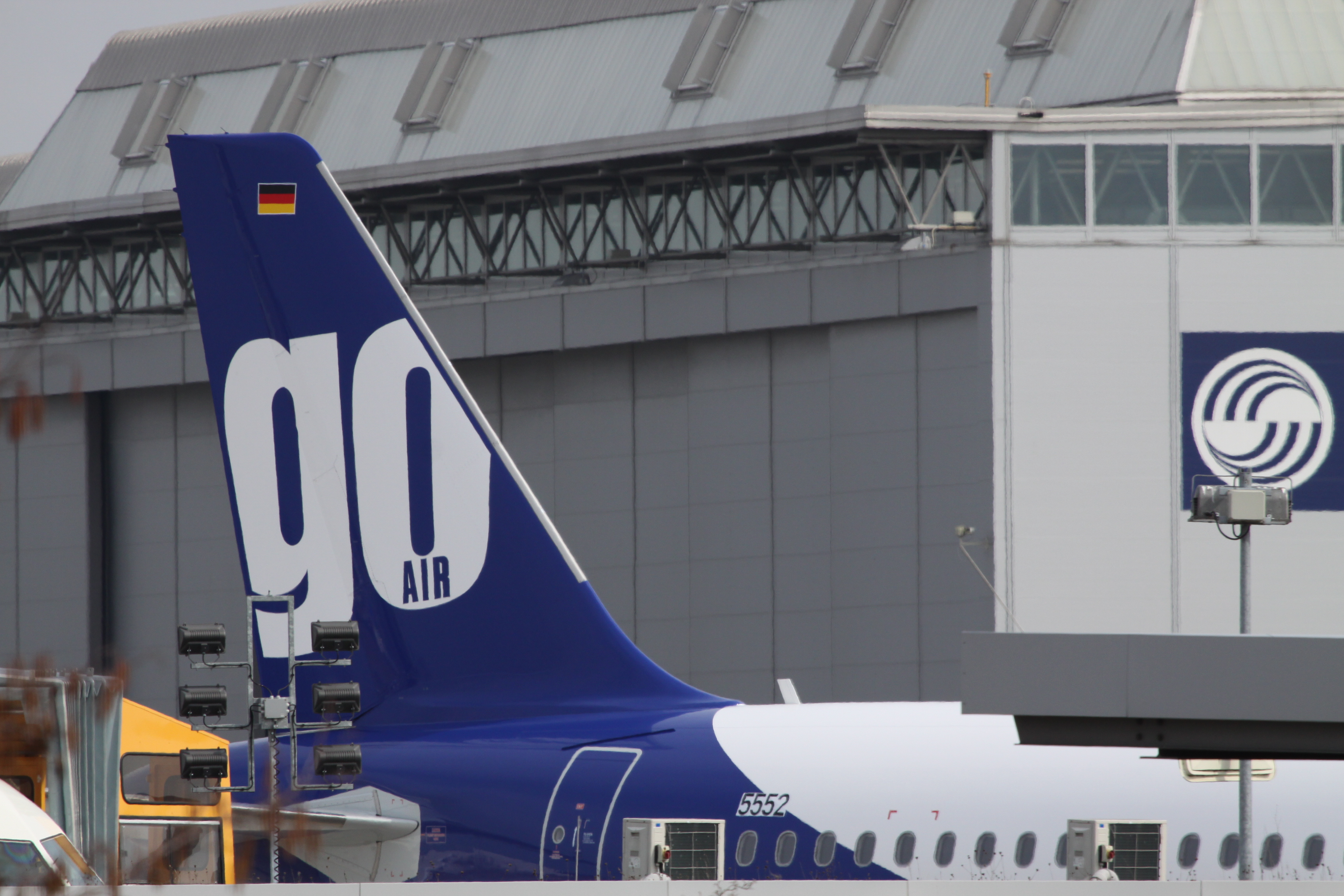 At Hamburg Finkenwerder